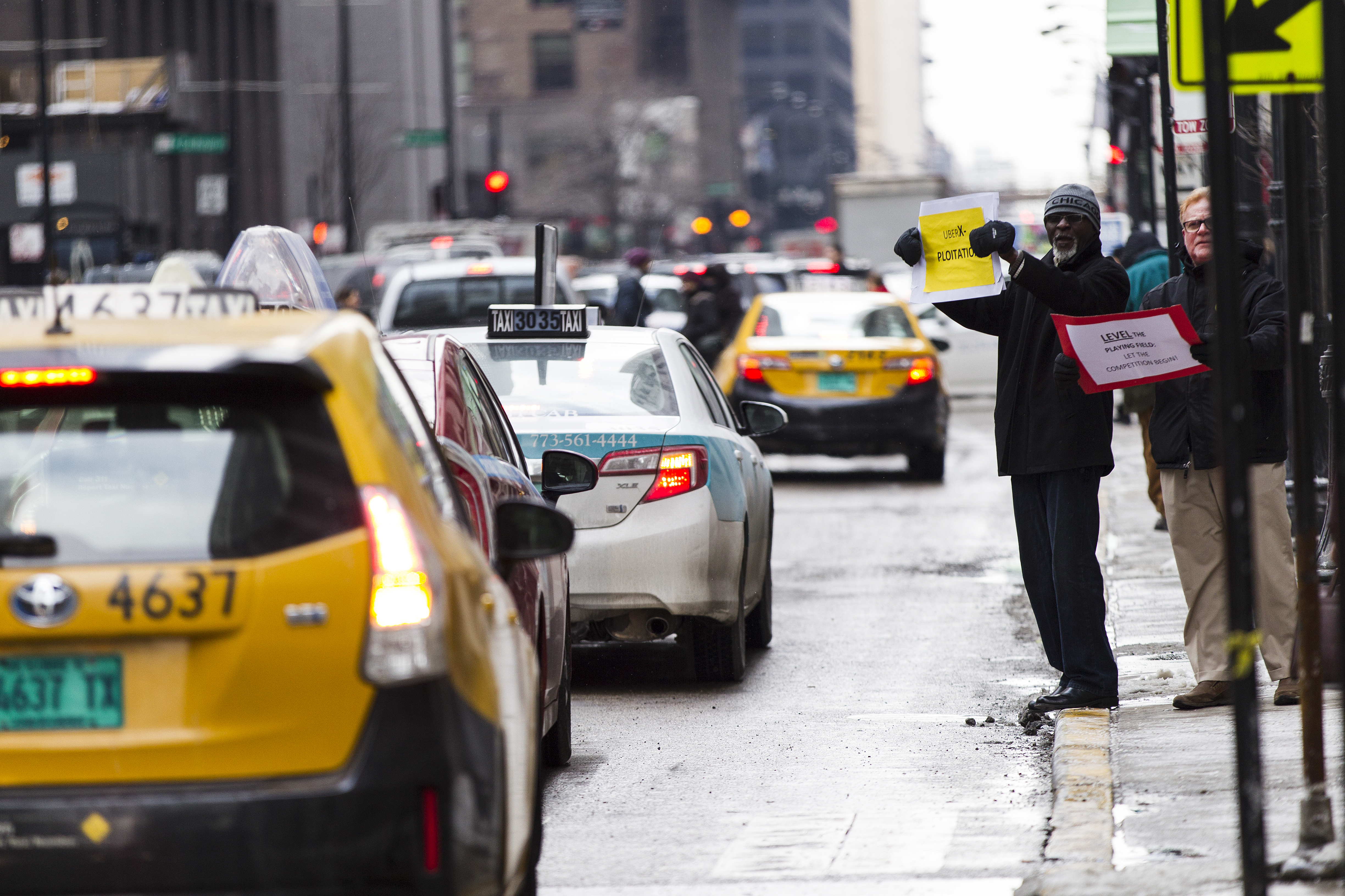 Chicago taxi drivers stand holding signs and driving around City Hall refusing to take fares in protest of the granting of a city license to ride-sharing company Uber. Cab drivers say the company has an unfair advantage because they aren't subject to the same stringent regulations as the cab companies. Chicago Alderman Bob Fioretti accused Mayor Rahm Emmanuel of favoritism as his brother is an investor in the company.